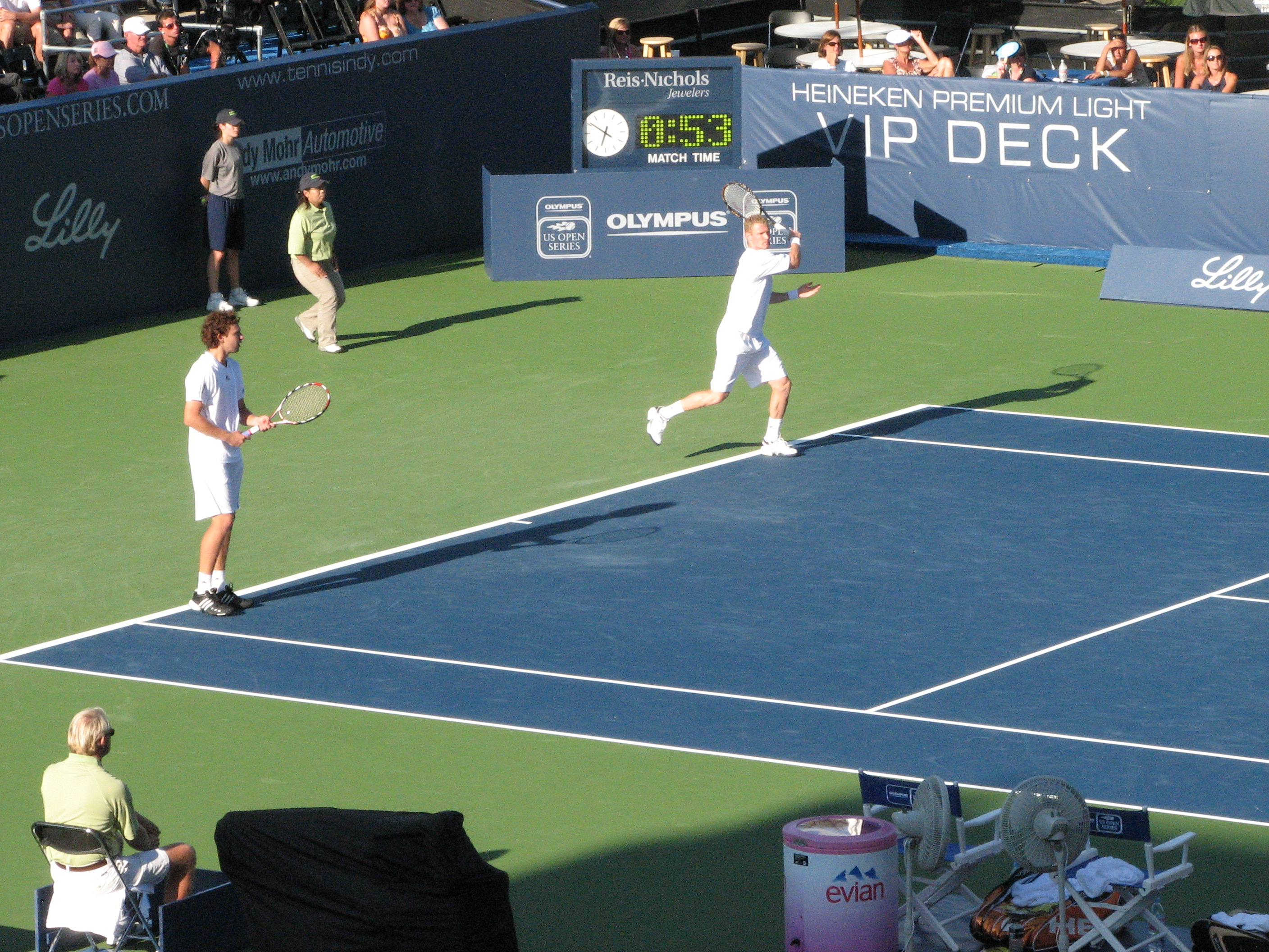 Ernests Gulbis (left) and Dmitry Tursunov (right) against Sam Querrey and Aisam-ul-Haq Qureshi (unseen) in the 2009 Indianapolis Tennis Championships semifinals